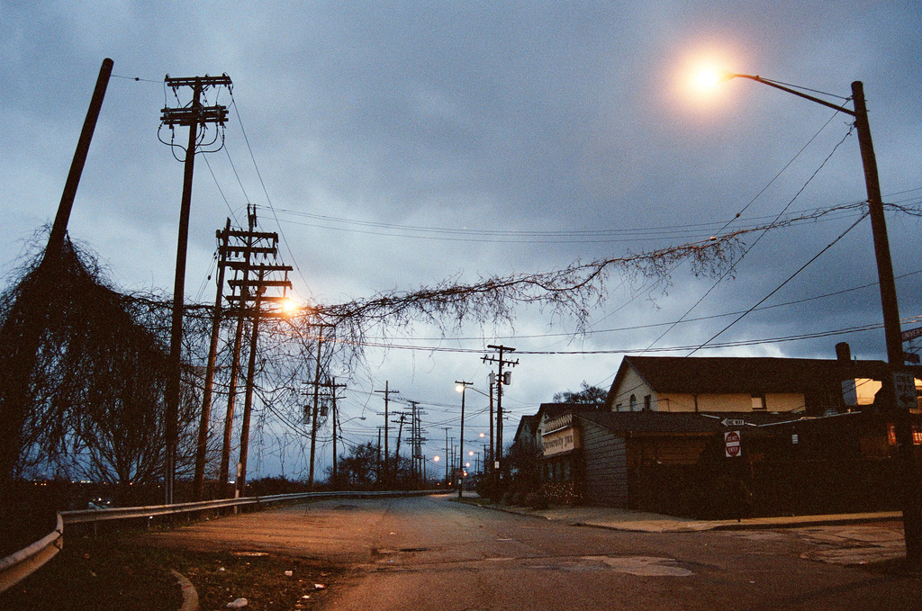 Dusky street in the Tremont neighborhood of the city of Cleveland, Ohio.